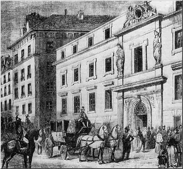 Old Paris Conservatoire at the junction of the rue Bergère and rue du Faubourg Poissonnière.